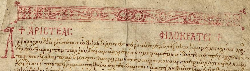 Beginning of the Letter of Aristeas. Biblioteca Apostolica Vaticana, Vat. gr. 747, f. 1r